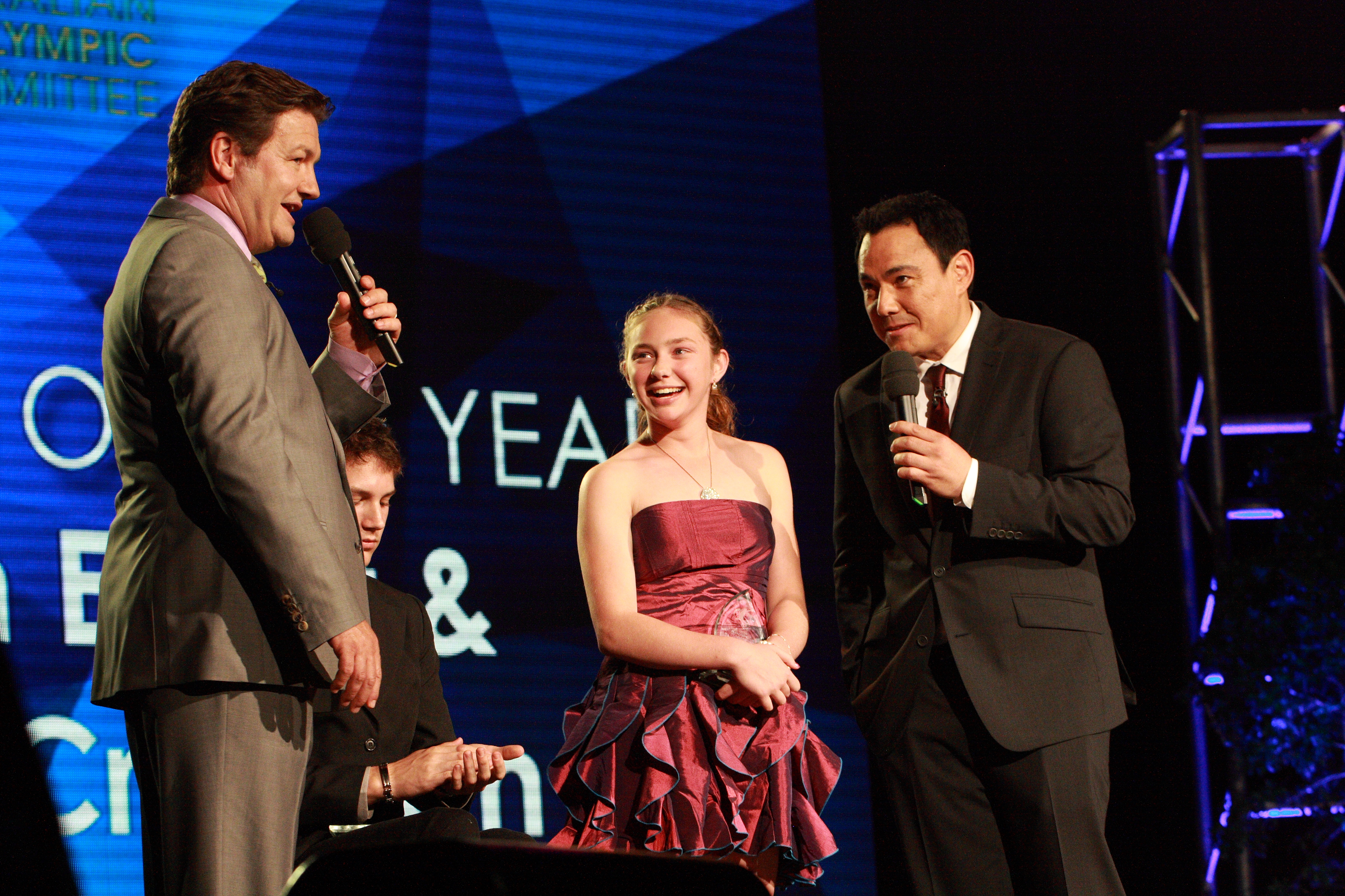 Maddison Elliott, Australian Paralympian of the Year 2012 ceremony at the Hordern Pavilion, Sydney, Australia.